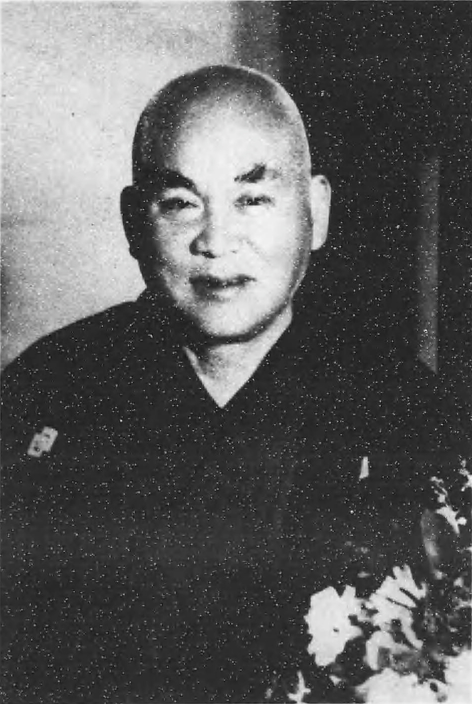 Aso Takichi